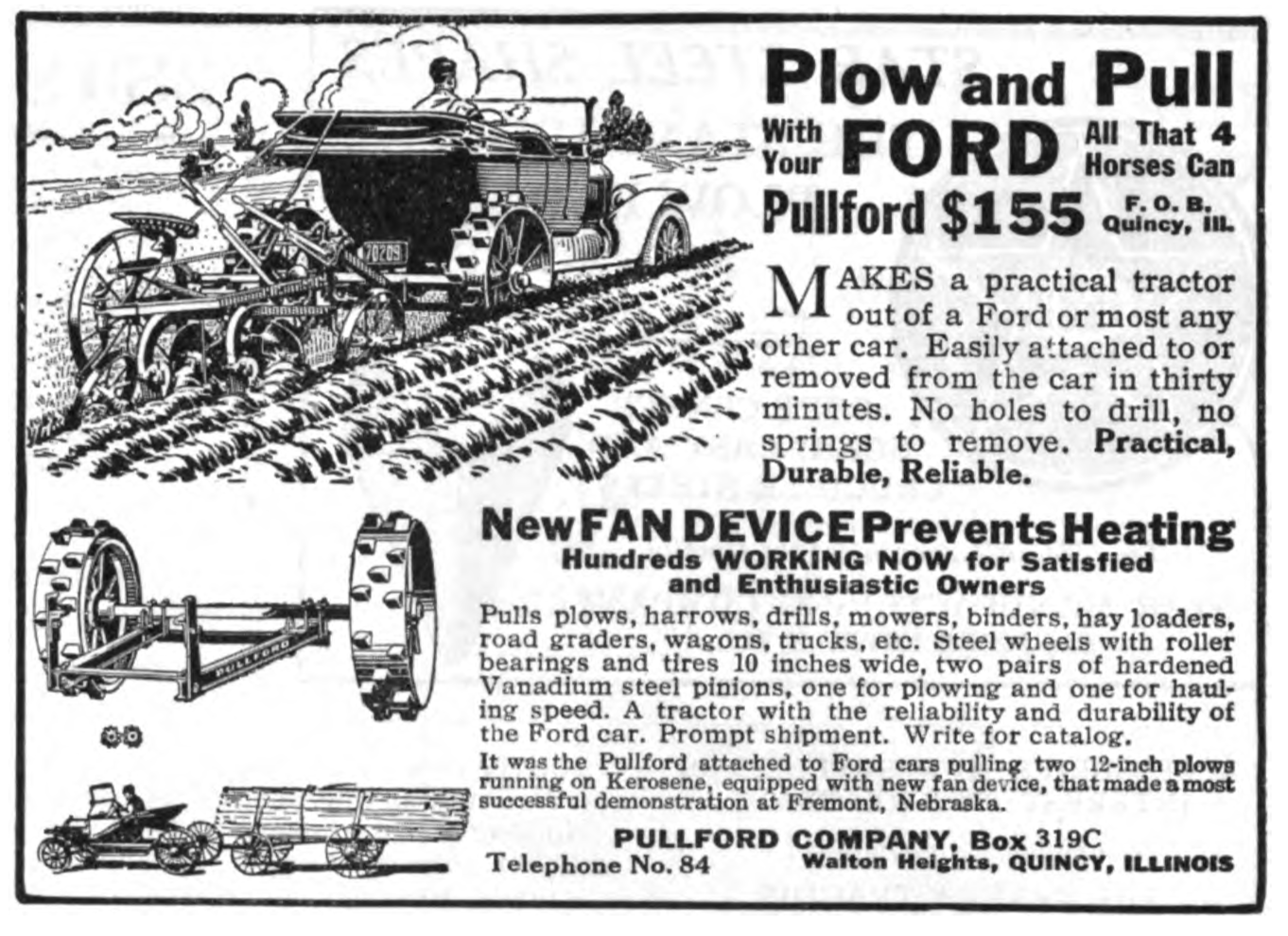 A 1918 advertisement for auto-to-tractor conversion kits by the Pullford Company of Quincy, Illinois, USA, at a time when the idea was popular and dozens of companies offered such kits.